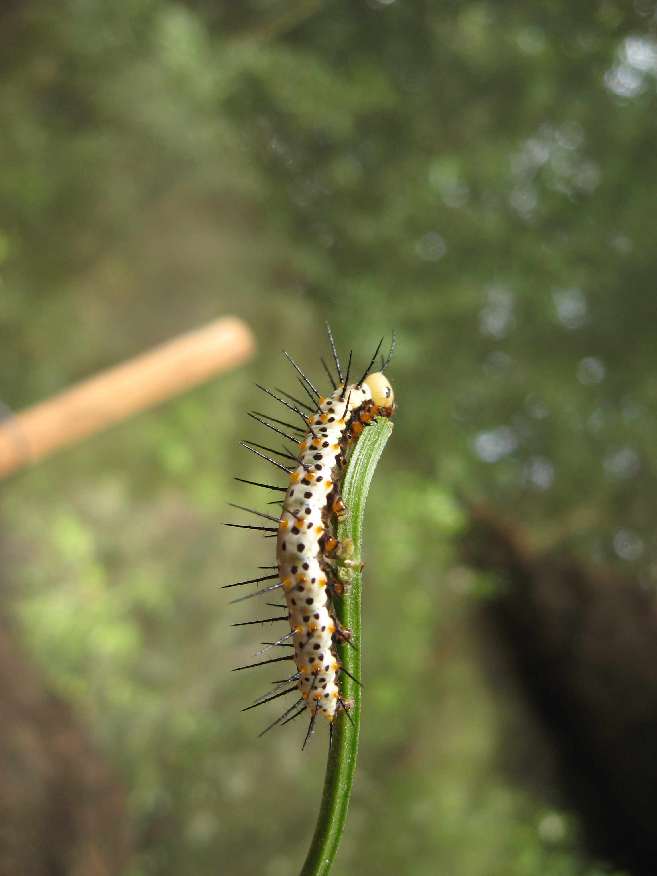 Fifth instar caterpillar of Heliconius erato butterfly, photographed at Porto Alegre, southern Brazil.